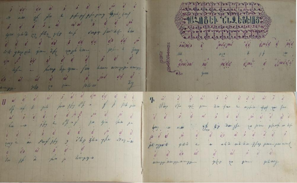 Example of New Armenian Notation (developed by Hampartsoum Limondjian) from a 1922 handwritten liturgy notebook. Notebook author: Grigor Aghazarian, New Julfa, Iran.